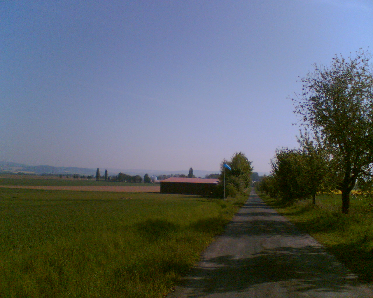 Hoppensen airfield, Germany